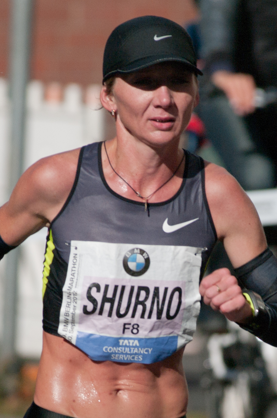 Ukrainian runner Olena Shurkhno at the 2012 Berlin Marathon. Here at Bülowstraße, between Kilometers 36 and 37.